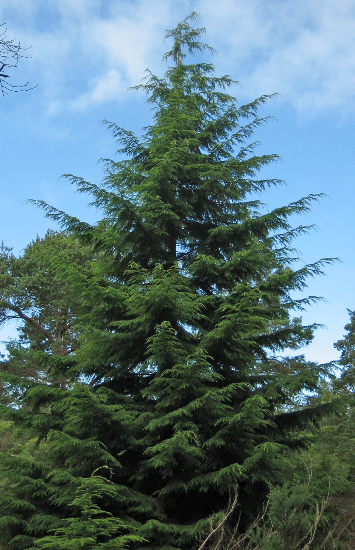 Tsuga heterophylla self-sown tree in a forestry plantation at Kyloe, Northumberland, Britain